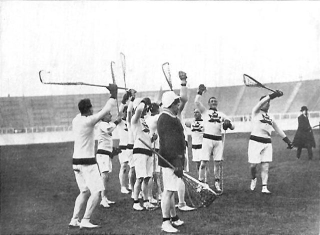 Lacrosse at the 1908 Summer Olympics. Shows "the Canadian winners cheering the United Kingdom".